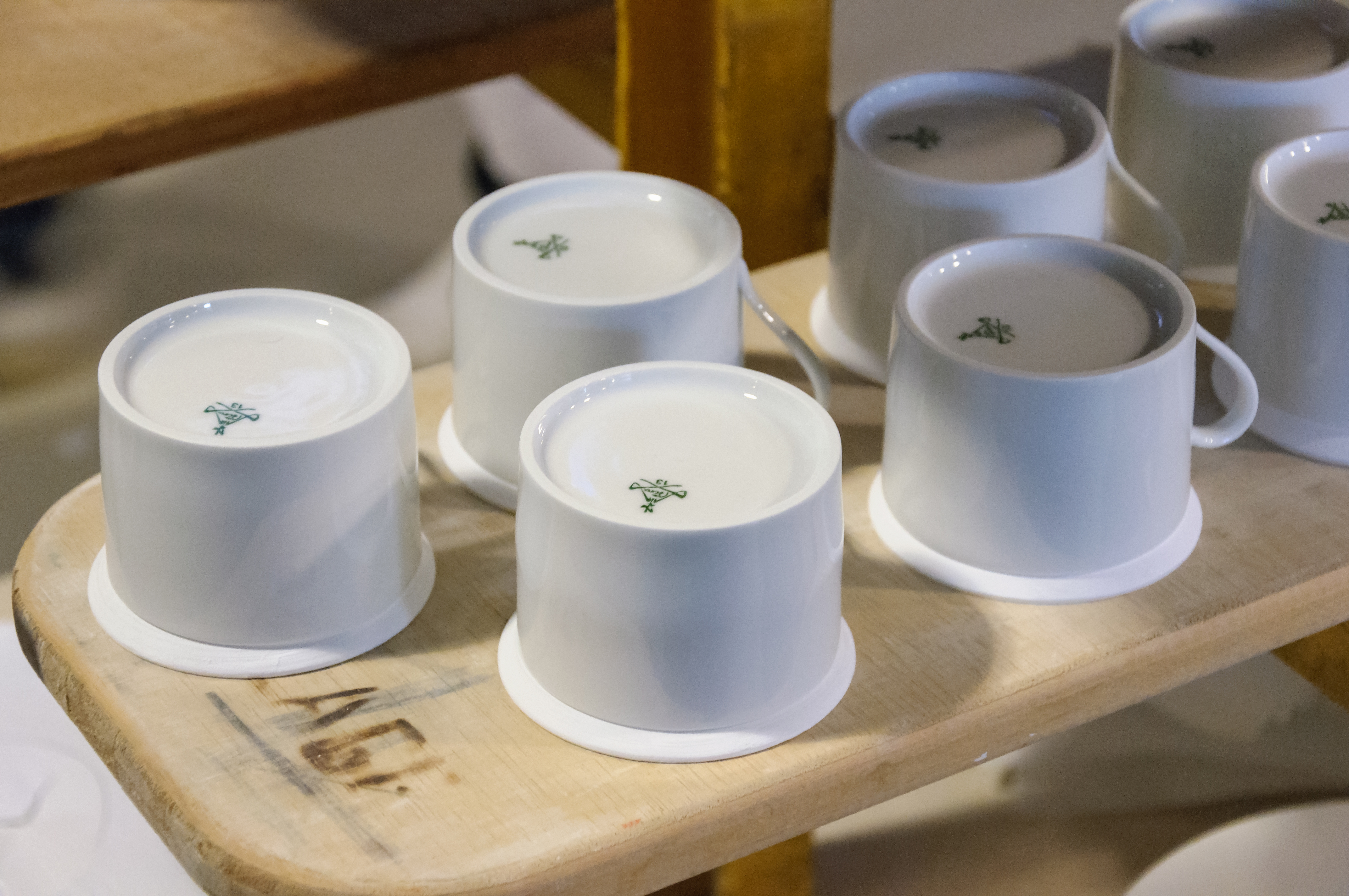 Pieces coming from a white ware kiln at Manufacture nationale de Sèvres, with the Sèvres porcelain mark.